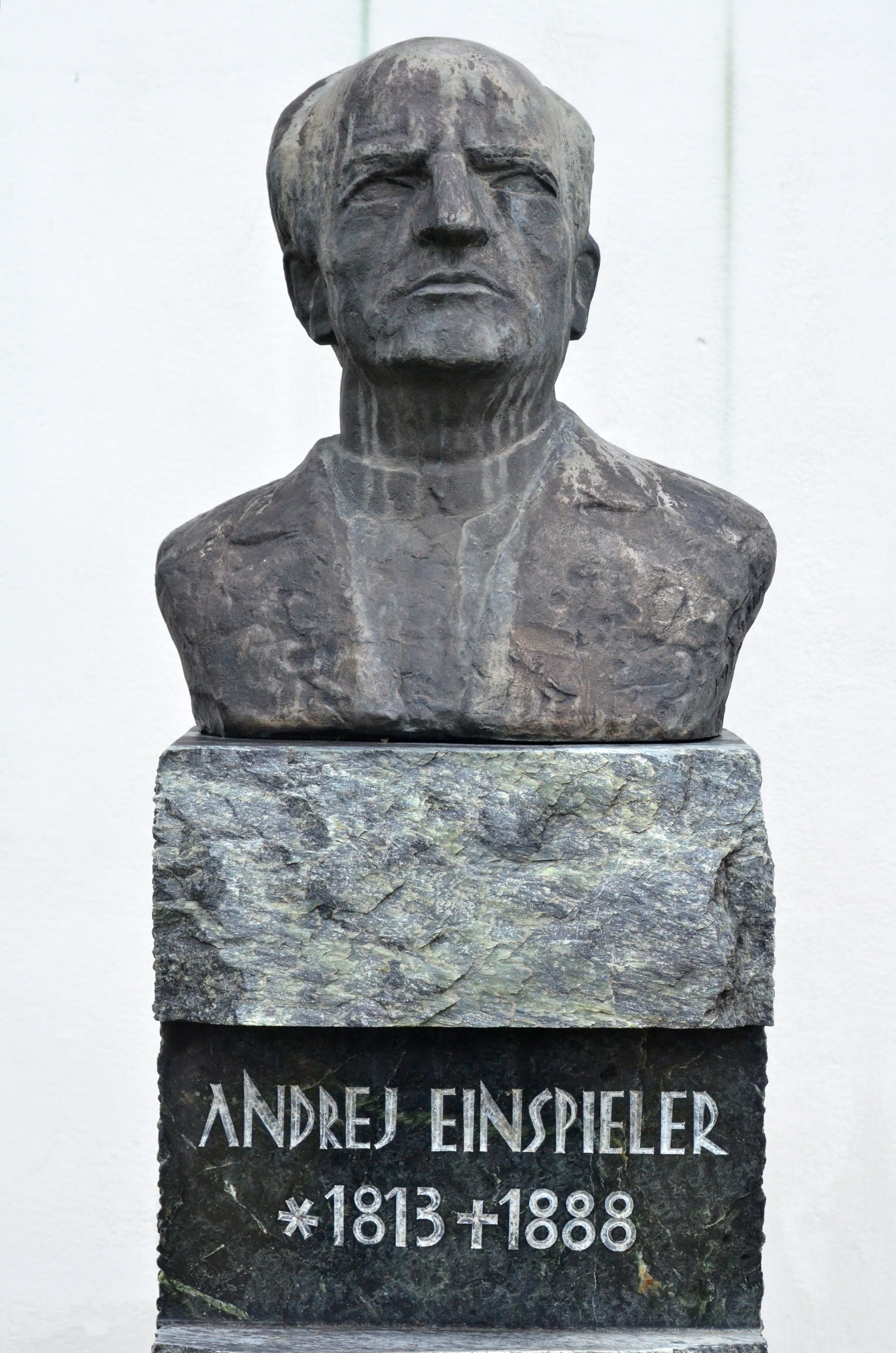 Bust of politician and priest Andrej Einspieler, created by the Slovenian sculptor France Gorše at the cultural park at Suetschach, market town Feistritz im Rosental, district Klagenfurt Land, Carinthia / Austria / EU